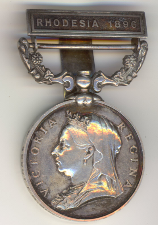 British South Africa Company medal (front) with Rhodesia clasp. Inscription on side: "Scout F.R. Burnham. Victoria Column."